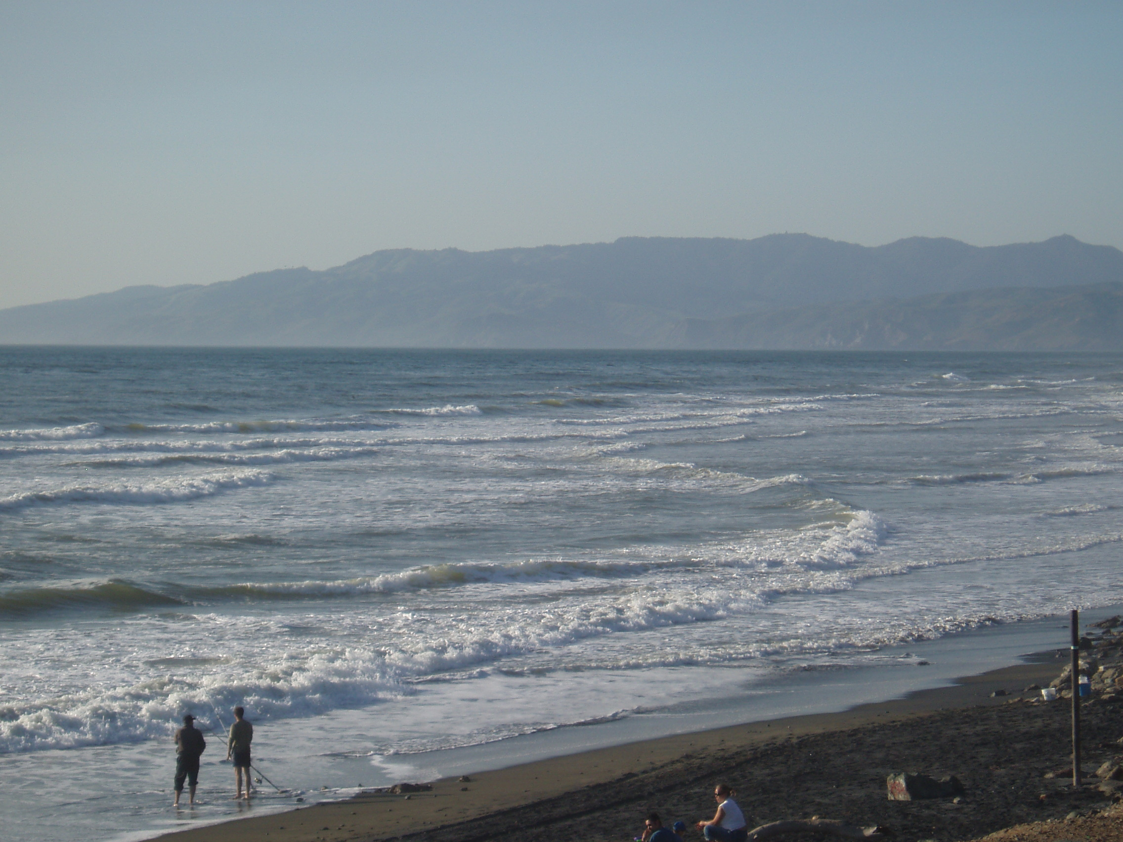 Two people on the shore of the Pacific Ocean